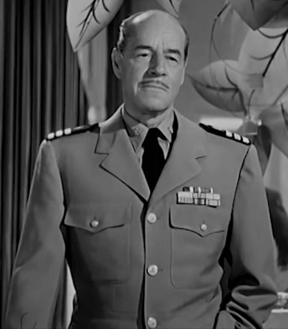 Jack Holt in The Chase (1946) - cropped screenshot.